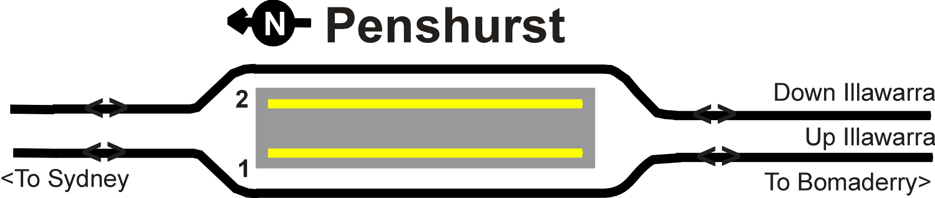 Track layout at Penshurst railway station